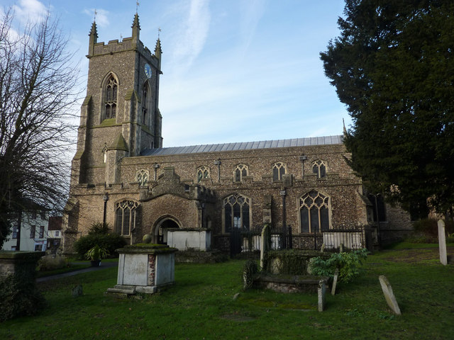 St Andrew's Church, Halstead The small churchyard to the south is a quiet spot away from the town traffic on the other side of the church.